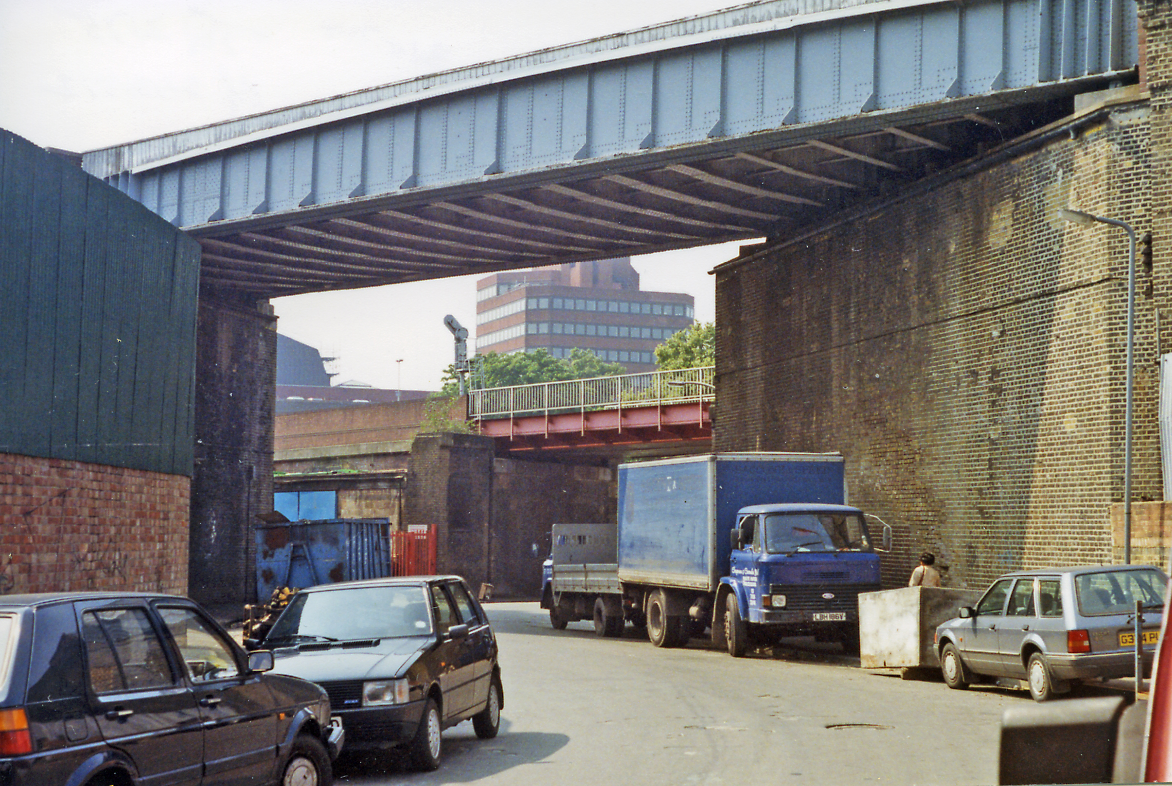 Site of former East Brixton station, 1991. View northward on Valentia Place, under the ex-LB&SC South London line (Victoria, (to left) - (to right) Peckham Rye - London Bridge) on which East Brixton station was situated (on the right) until closed 5/1/76. Beyond is the ex-SE&CR Victoria - Chatham - Ramsgate/Dover main line through Brixton station off to the left.